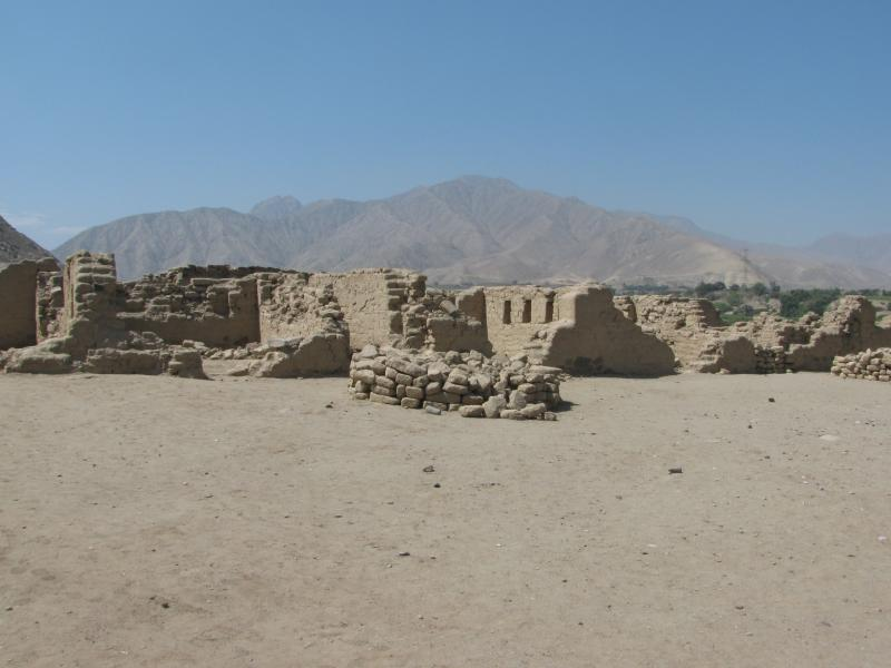 The temple has one very large space in the middle surrounded by small rooms along the perimeter